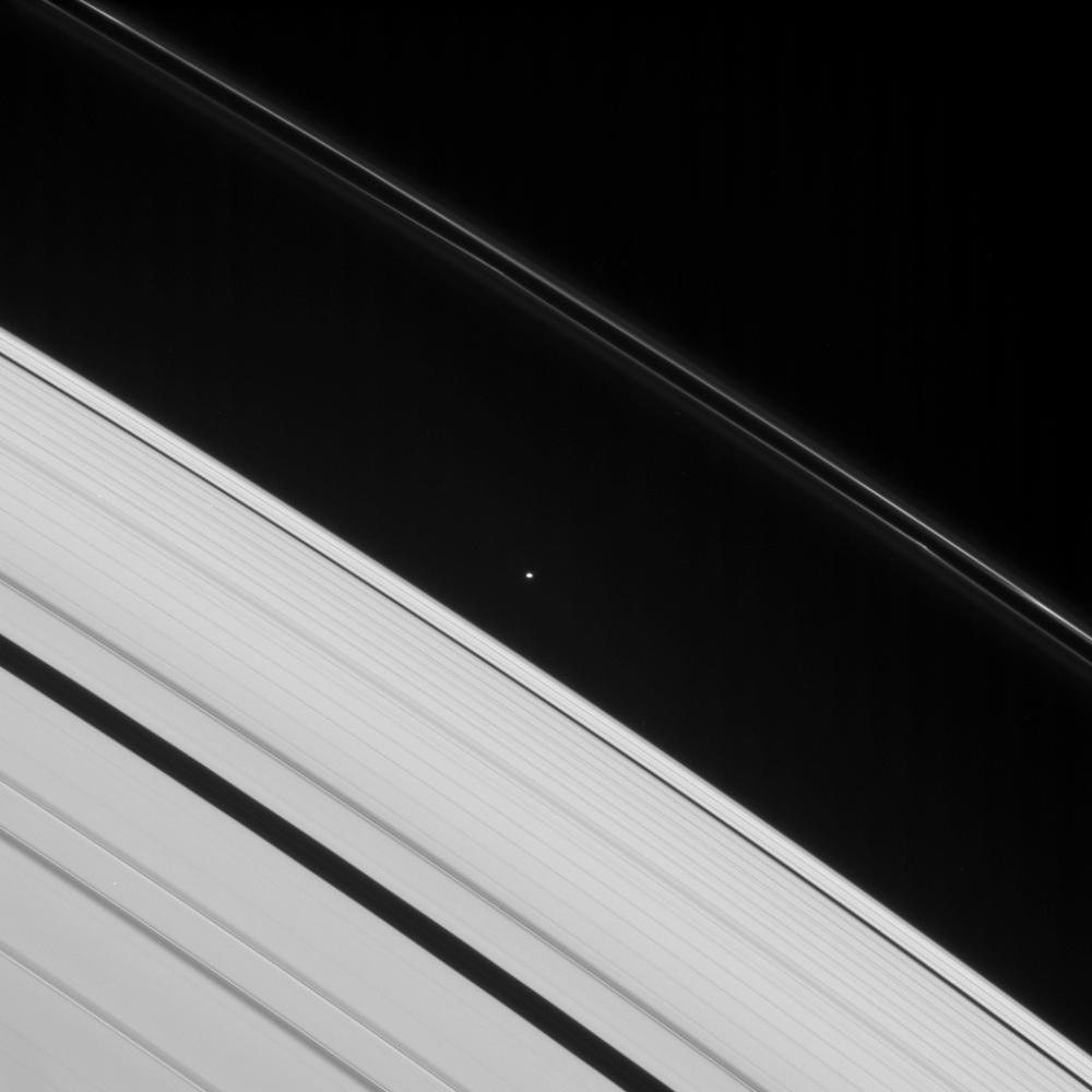 Atlas, seen here, is one of the two moons that ply the Roche Division—the region between Saturn's A and F rings. Prometheus also orbits within this division. This view looks toward flying-saucer-shaped Atlas (32 kilometers, or 20 miles across at its widest point) and the unilluminated side of the rings from about 37 degrees above the ringplane. The image was taken in visible light with the Cassini spacecraft narrow-angle camera on March 9, 2008. The view was obtained at a distance of approximately 1.5 million kilometers (925,000 miles) from Atlas and at a Sun-Atlas-spacecraft, or phase, angle of 44 degrees. Image scale is 9 kilometers (6 miles) per pixel.